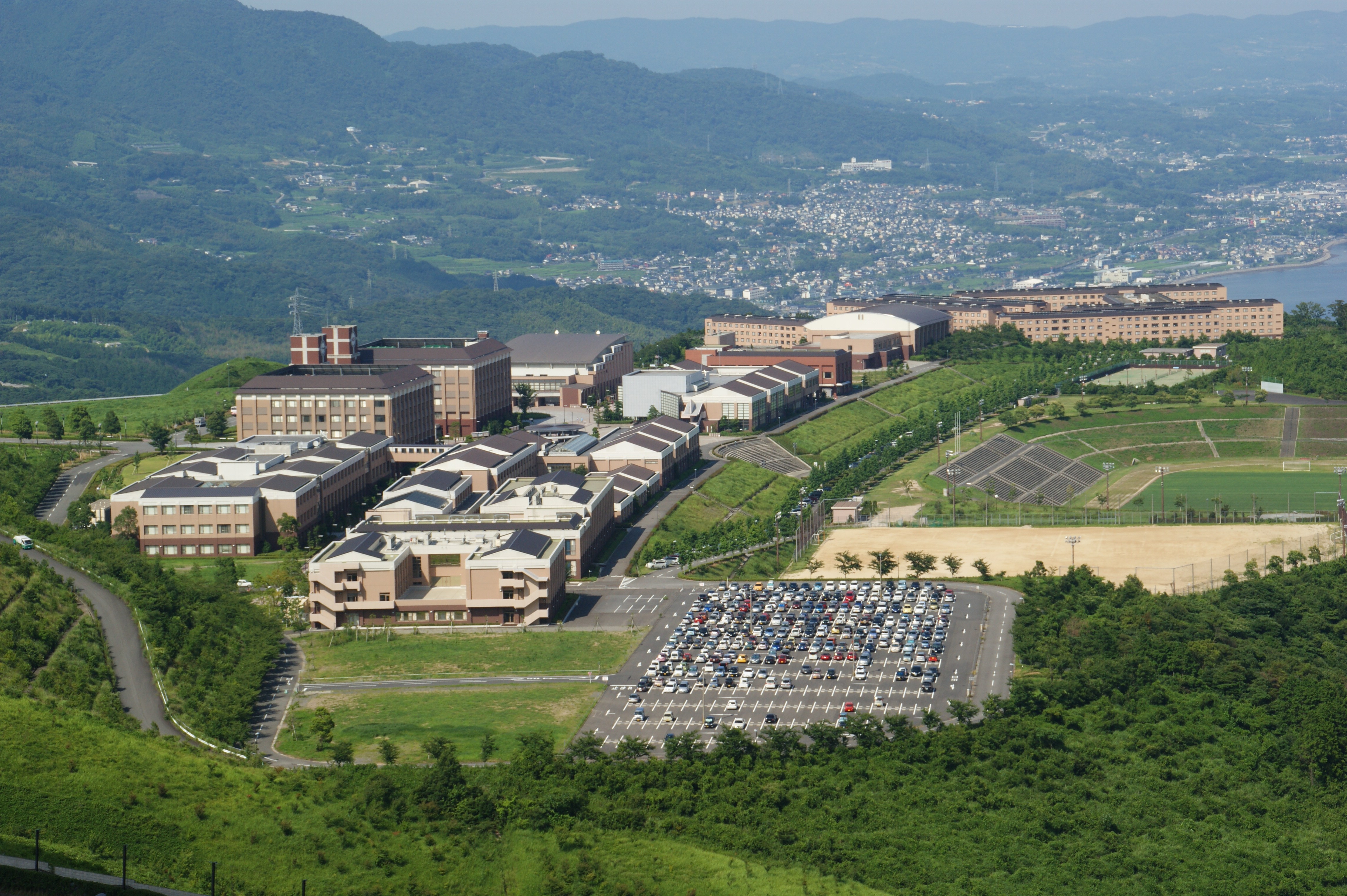 Ritsumeikan Asia Pacific University.(Beppu City, Oita Prefecture, Japan)